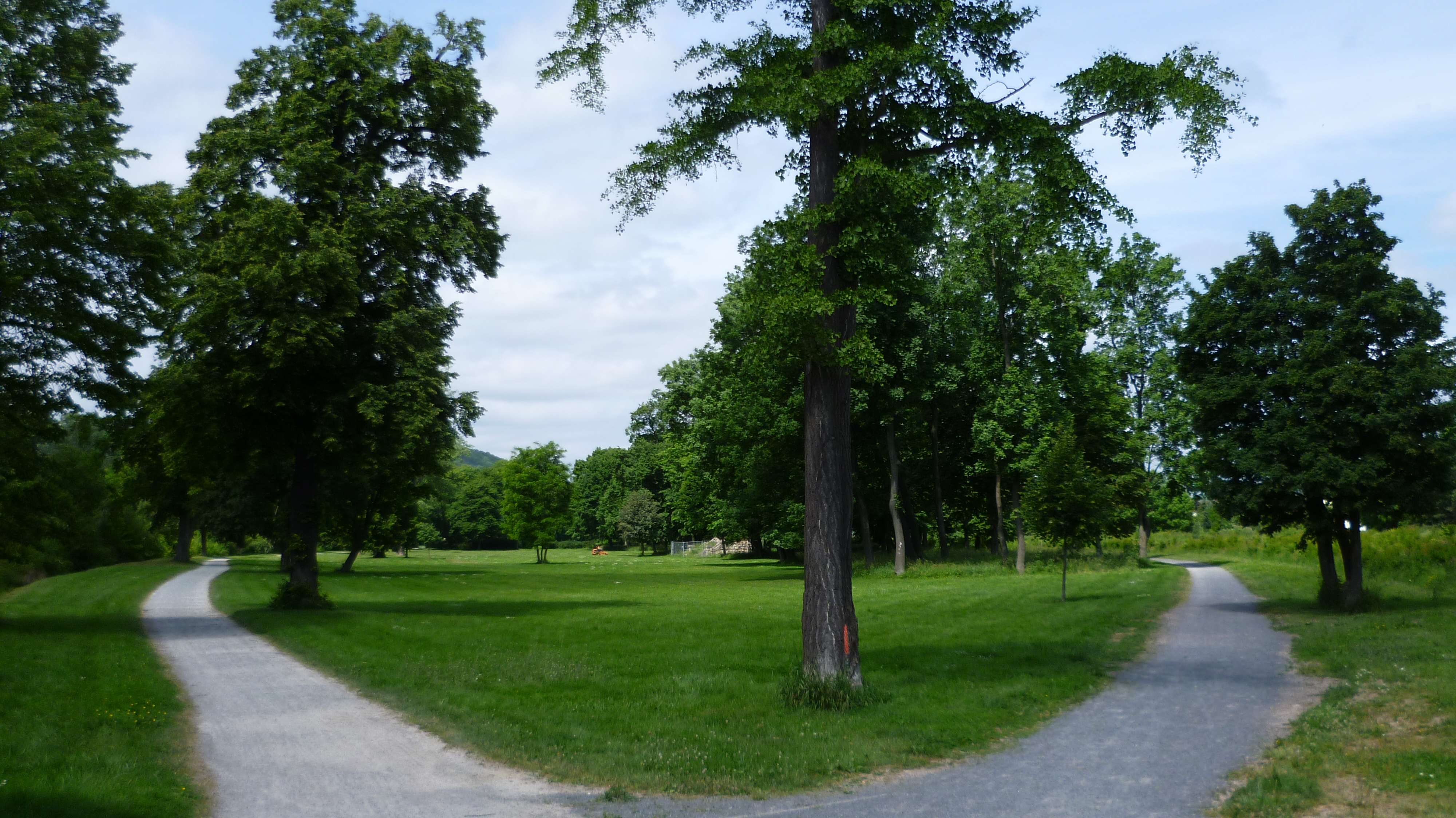 palace park of Sondershausen